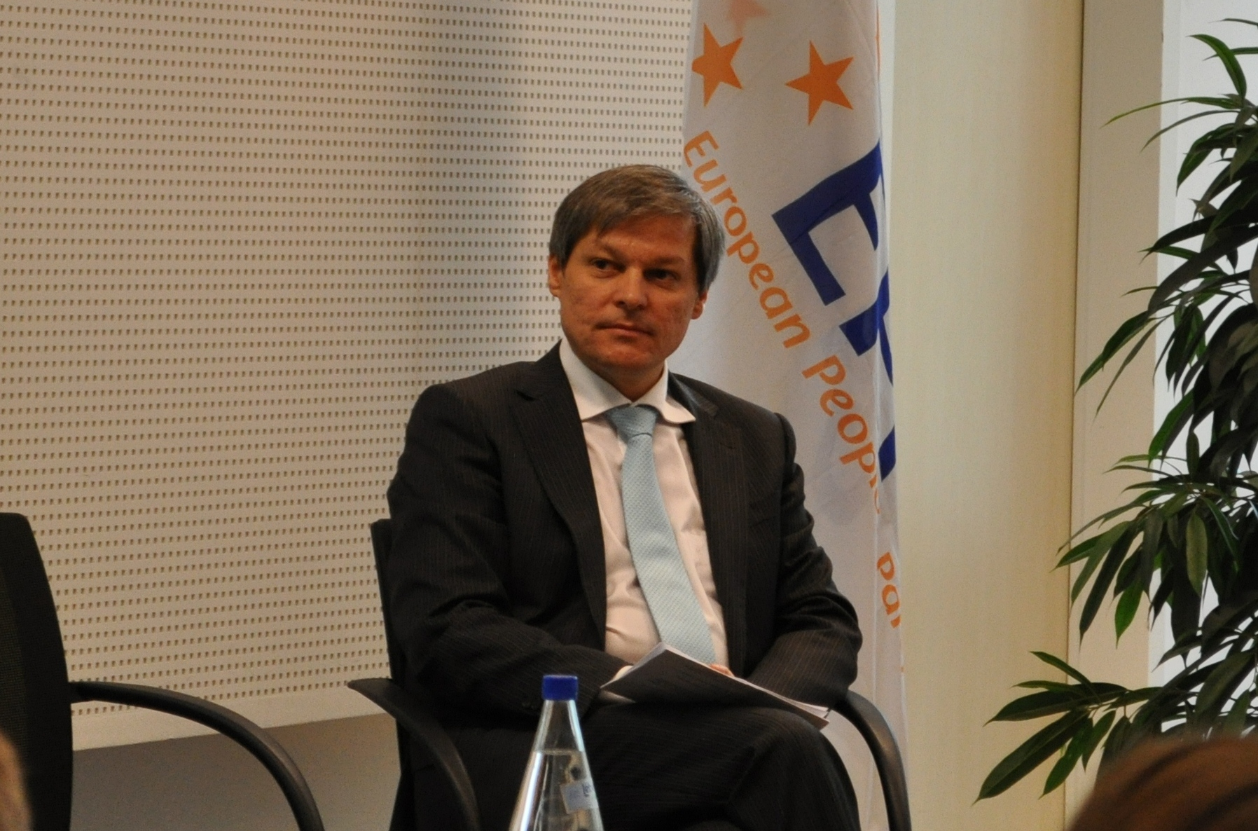 Dacian Ciolos at EPP presentation of CAP Document